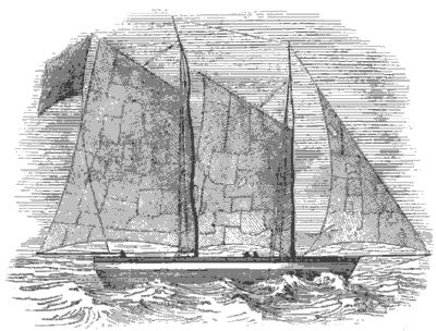 The Messenger of Peace, as she appeared when leaving Rarotonga for Tahaiti, with her mat-sails, &c. Page 43